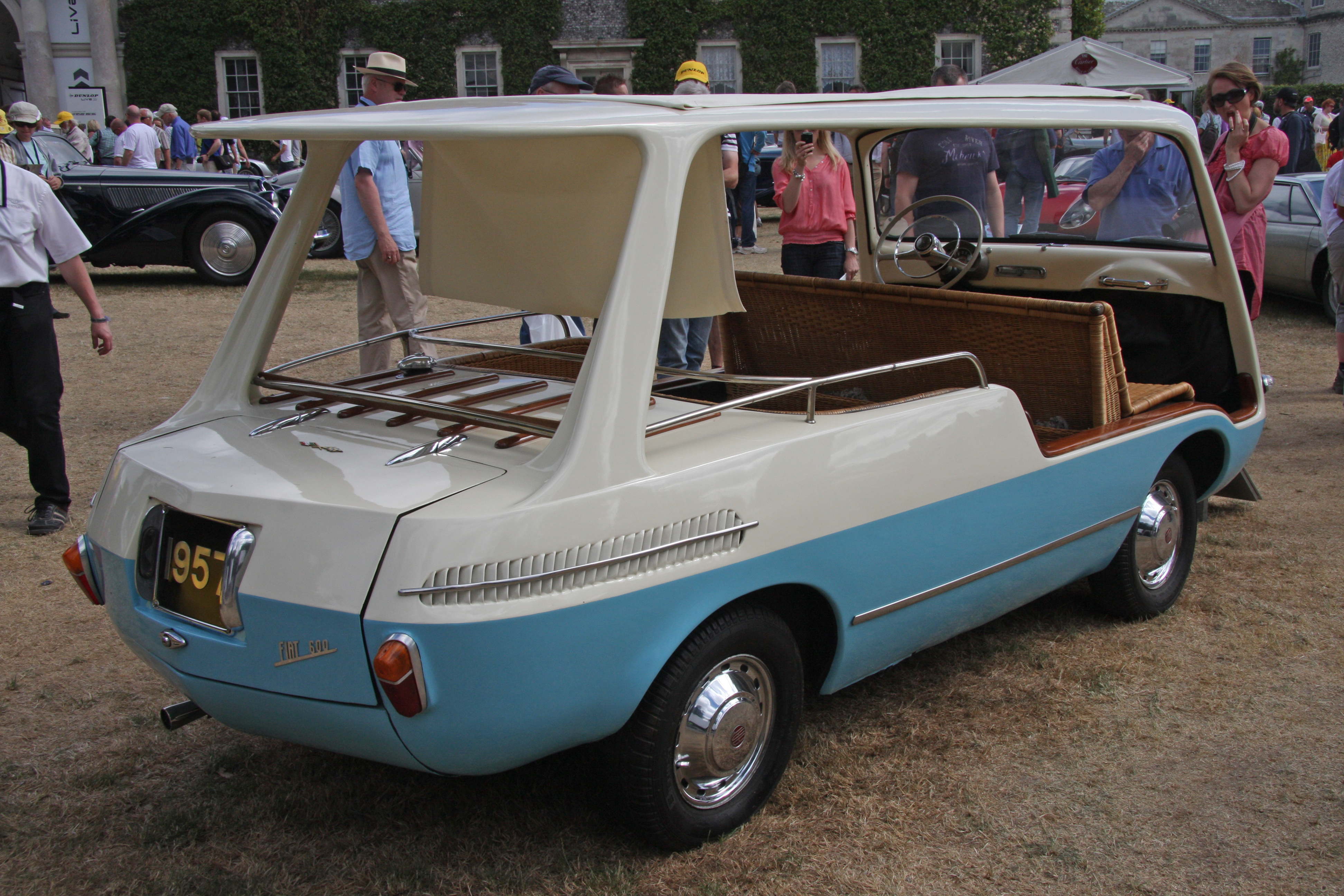 Fissore Marinella the 1957 prototype designed by Giovanni Michelotti on a Fiat Multipla 600 .